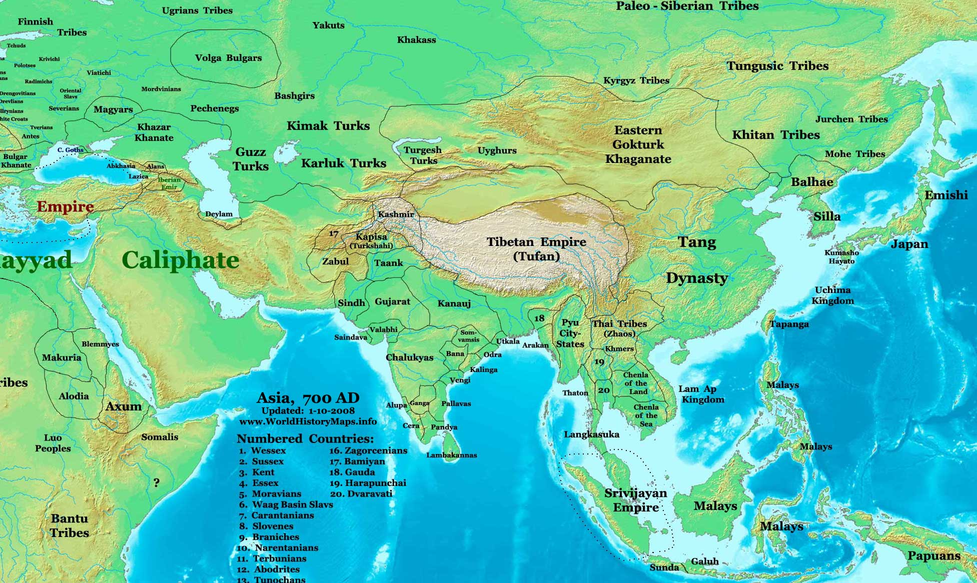 This image is a zoomed-in version of Eastern Hemisphere in 700 AD. Eastern Hemisphere in 700 AD. Author: Thomas A. Lessman. Source URL: Image was created by me (Thomas Lessman) based on map of Eastern Hemisphere in 700AD. Image is free for public and/or educational use. I would appreciate a mention if this image is used elsewhere. If anyone is interested in helping further this work, please contact Thomas Lessman at . Other Historical Maps by Thomas Lessman 500 BC. 323 BC. 200 BC. 100 BC. 050 BC. 001 AD. 050 AD. 100 AD. 200 AD. 300 AD. 400 AD. 475 AD. 476 AD. 477 AD. 500 AD. 565 AD. 600 AD. 700 AD. 800 AD. 900 AD. 1025 AD. 1100 AD. 1200 AD.